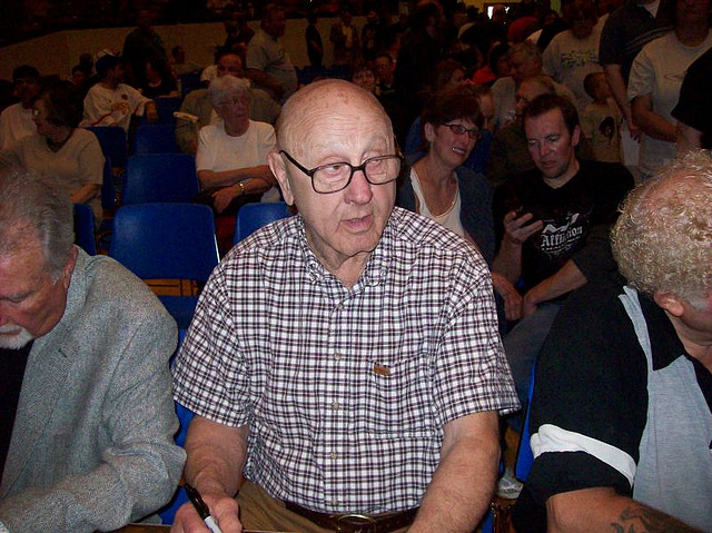 Bob Geigel. Taken at the premiere of K.C. On the Mat on April 23, 2009.